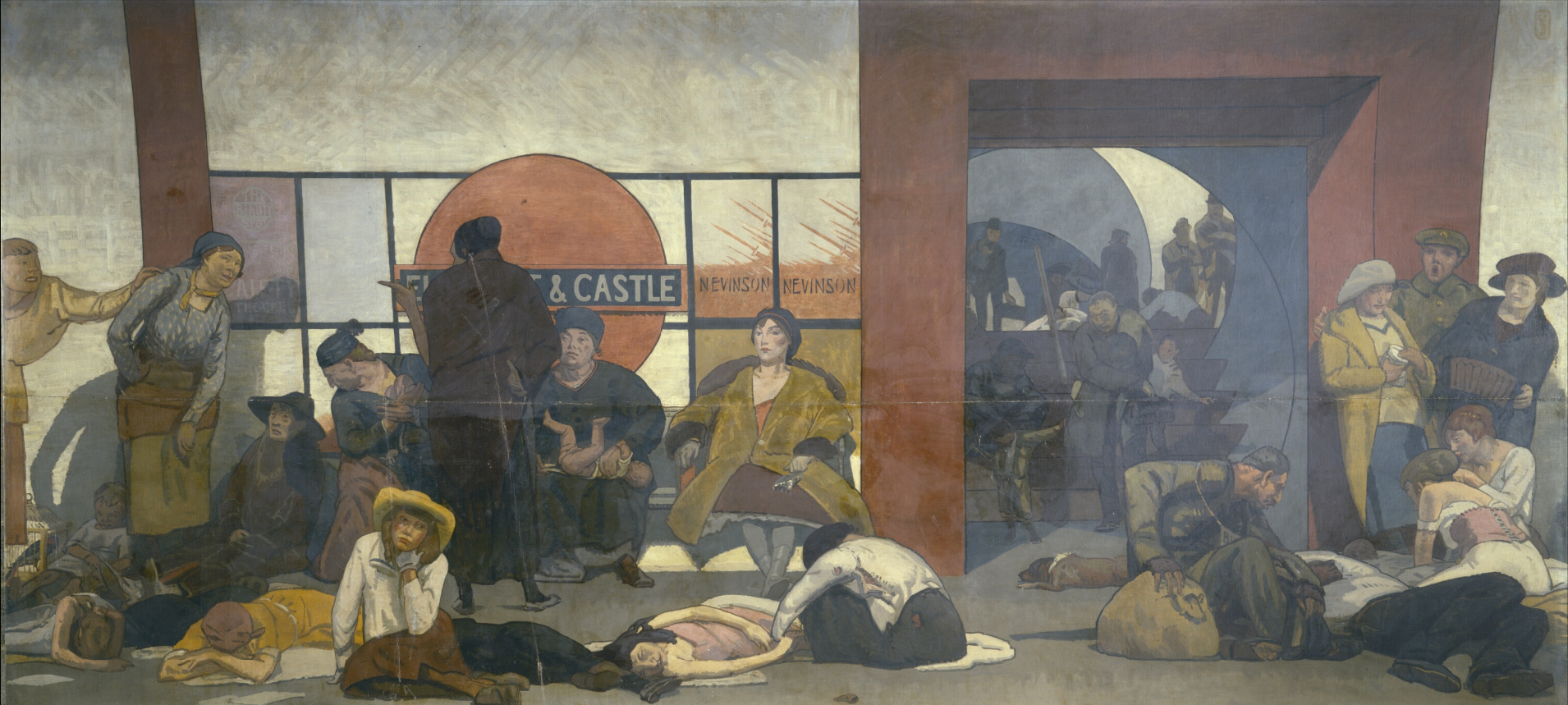 Civilians, mainly women and children sheltering in the Elephant and Castle tube station, London. Some sit on the platform, others lie down and to the right-hand side a group of three people, including a soldier, appear to be singing.